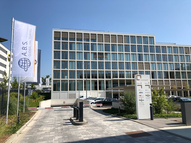 The A.B.S. Global Factoring AG is a factoring provider germany. This picture shows their headquarter in Wiesbaden.